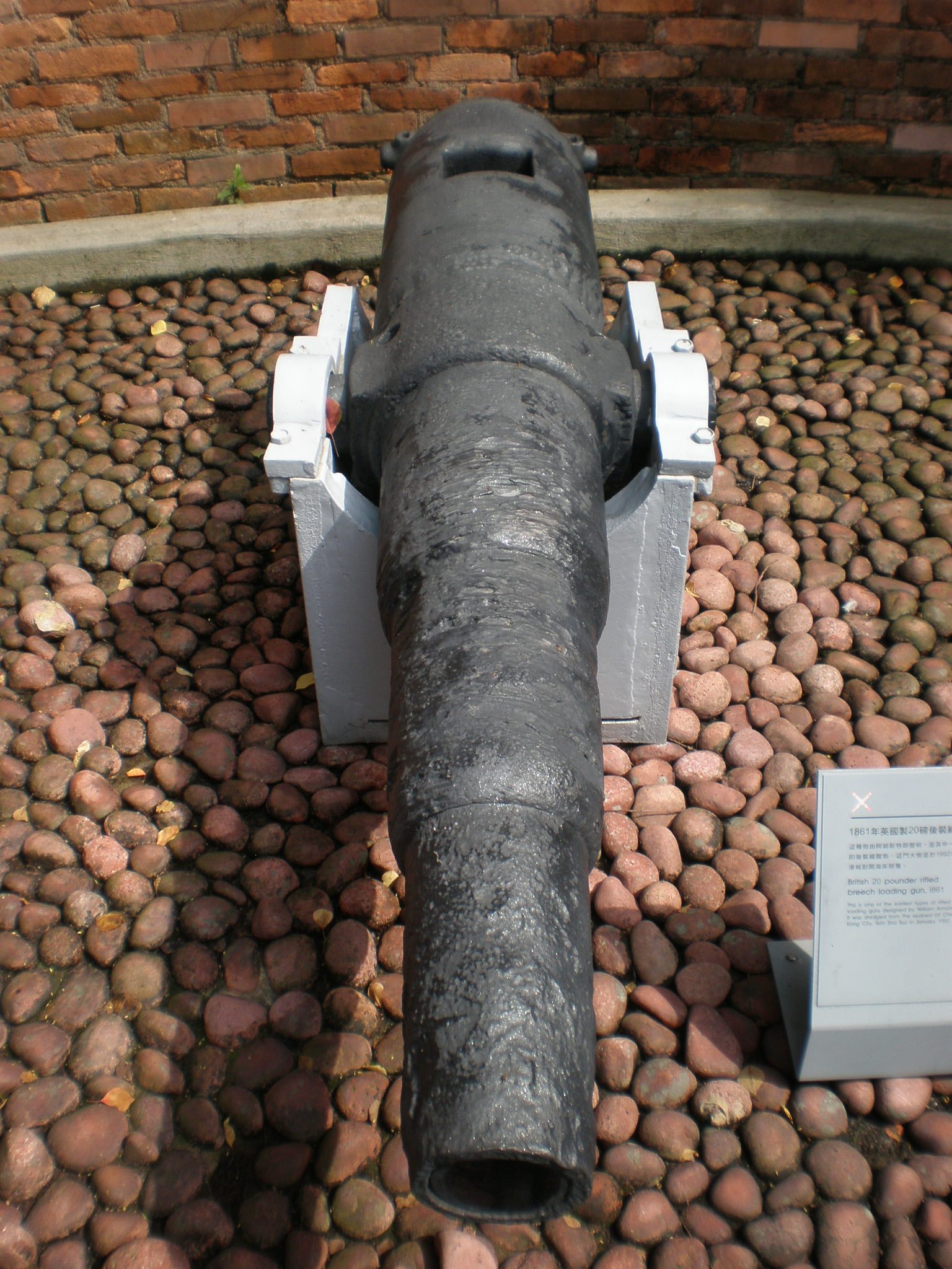 An 1861 British RBL 20 pounder 13cwt pinnace (boat) gun designed by William Armstrong. Located inside the former gunpowder factory of Lei Yue Mun Fort. The fort now forms a large part of the Hong Kong Museum of Coastal Defence.